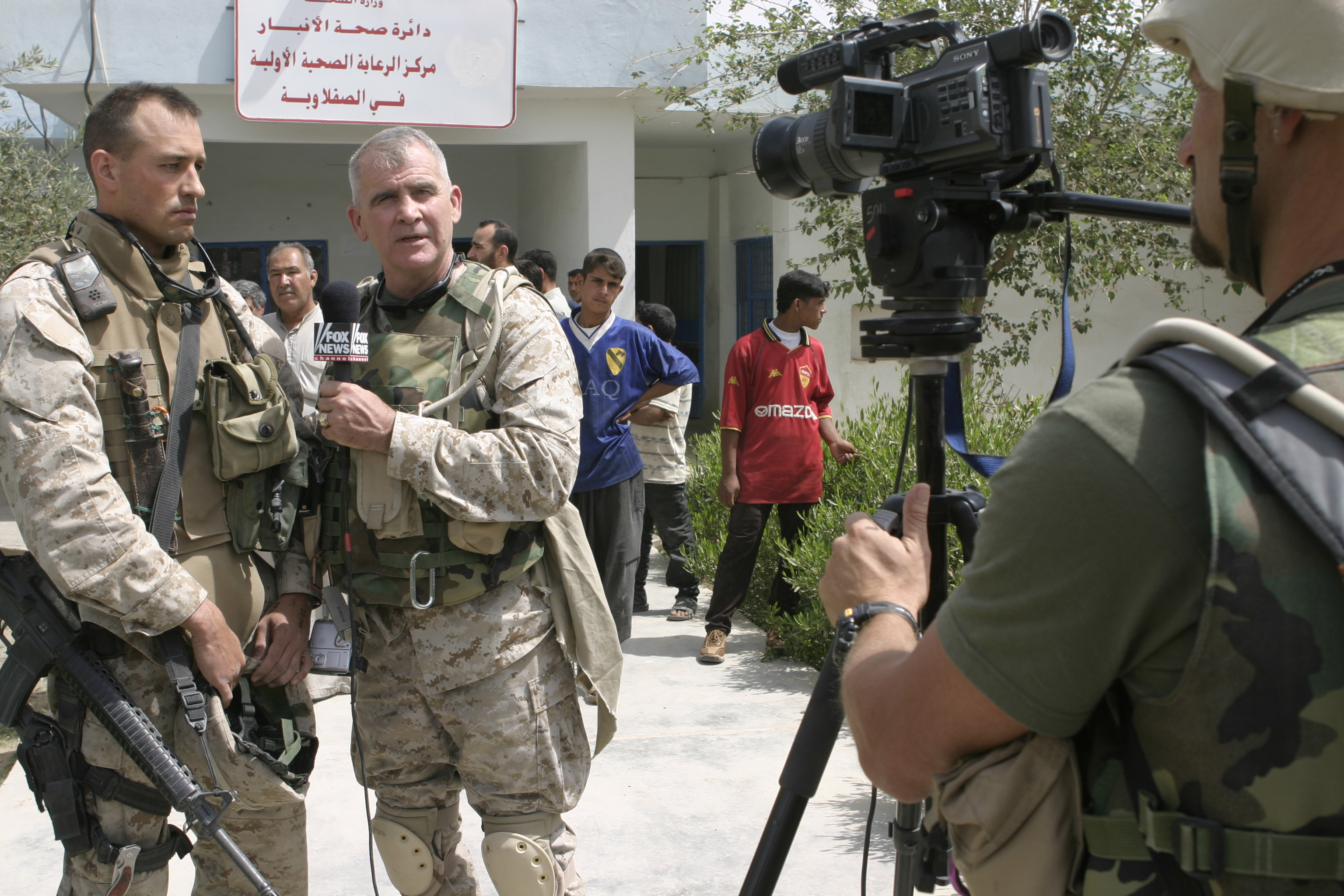 SAQLAWIYAH, Iraq - Oliver North, right, interviews Maj. Chris E. Phelps, team leader for 1st Battalion, 6th Marine Regiment's civil affairs group, left, during his visit to the medical clinic here May 9. Marines like Phelps traveled with Oliver North throughout the city, showing him the progress the Iraqi soldiers and Marines here have made restoring the city's infrastructure.